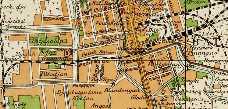 Colonial Maps of Batavia